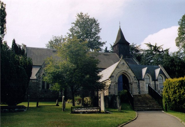 St John, Woking Built in 1842.